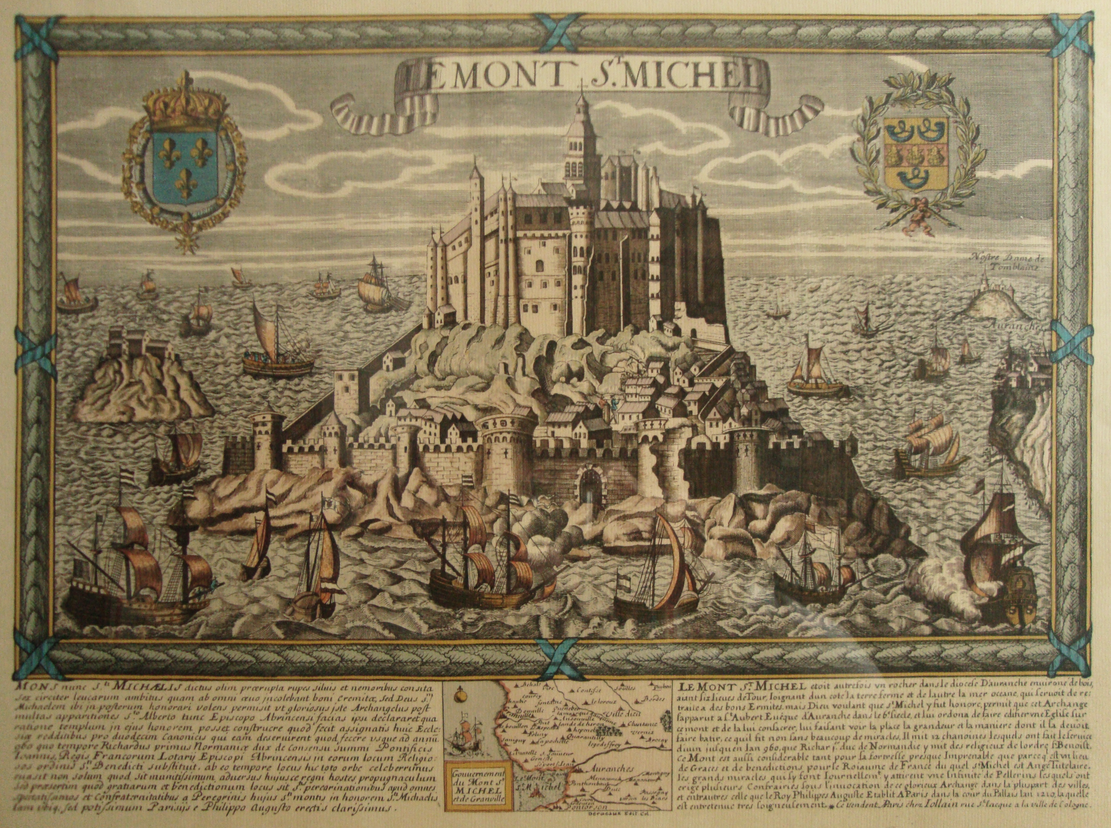 Le Mont St. Michel, Normandy, France. It is a map (date between late XVIII and early XIX centuries; personal library) that comprises an old view, with a bilingual historical description, of the place (Latin and French) and map. Made by Daniel Louis Derveaux (1914-2010). Although the images collected at suggest that this engraving is wrong due to the central and higher tower, which is represented in its actual shape in the maquette corresponding to the XX century, resembles to the present one, but not to that represented in the maquette corresponding to XVII-XVIII centuries, this engraving has to be dated so far to the last days of the monarchy in the late XVIII century, or during the brief Bourbon restoration of XIX century, due to the Royal Coat of Arms of the Kingdom of France, at the left upper corner of the engraving. Also, the image at which correspond to a view of the XVII century, shows the same same central and higher tower in the shape that has this uploaded image, instead of resembling that of the maquette 3, corresponding to XVII-XVIII centuries. Typographical characters suggest XVIII century.